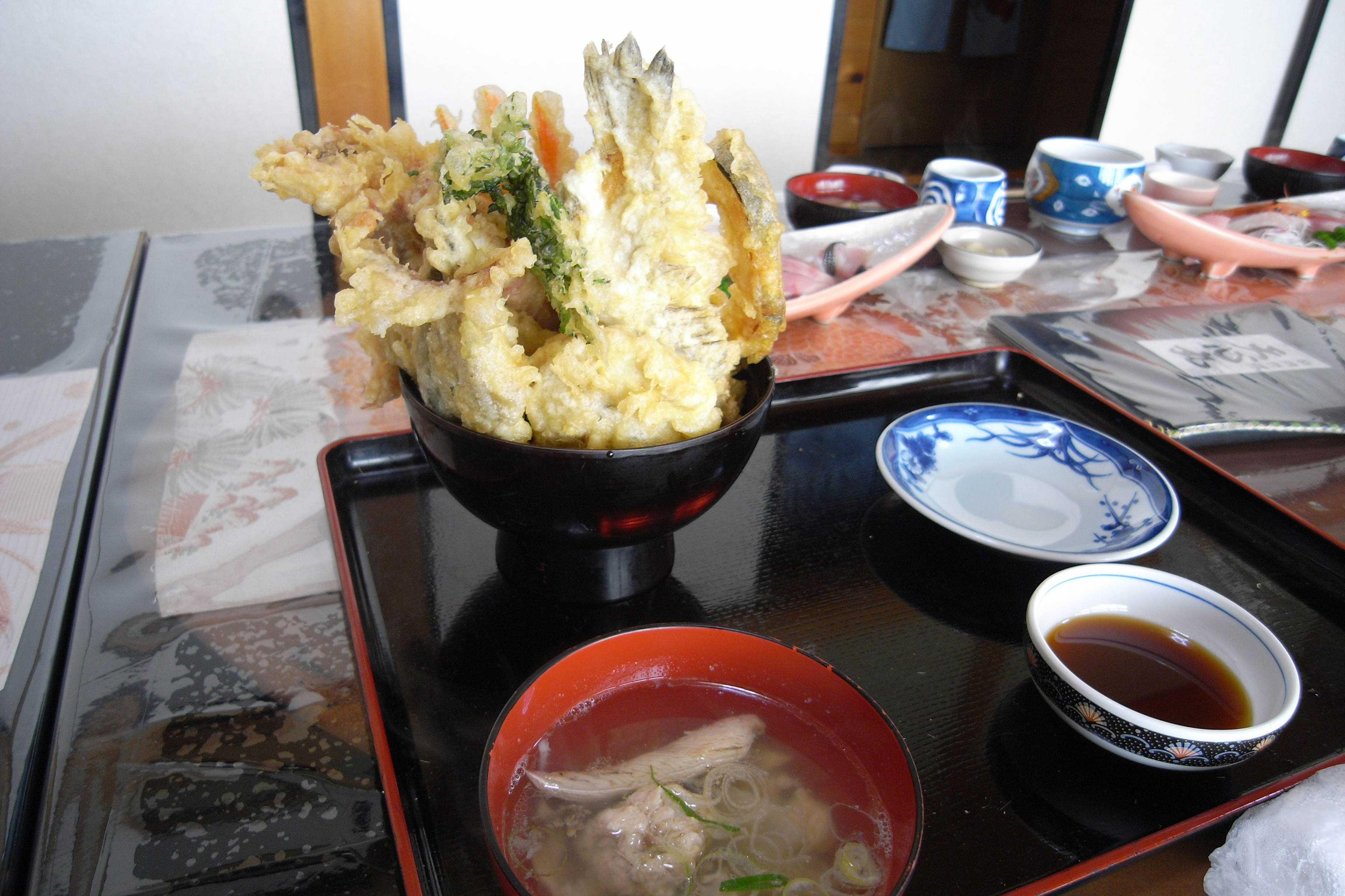 With miso soupbig tendon